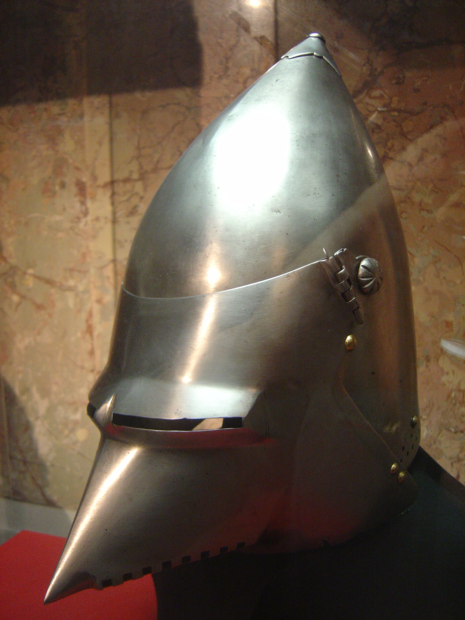 Helmet of Duke Ernest of Austria (Northern Italy circa 1400)